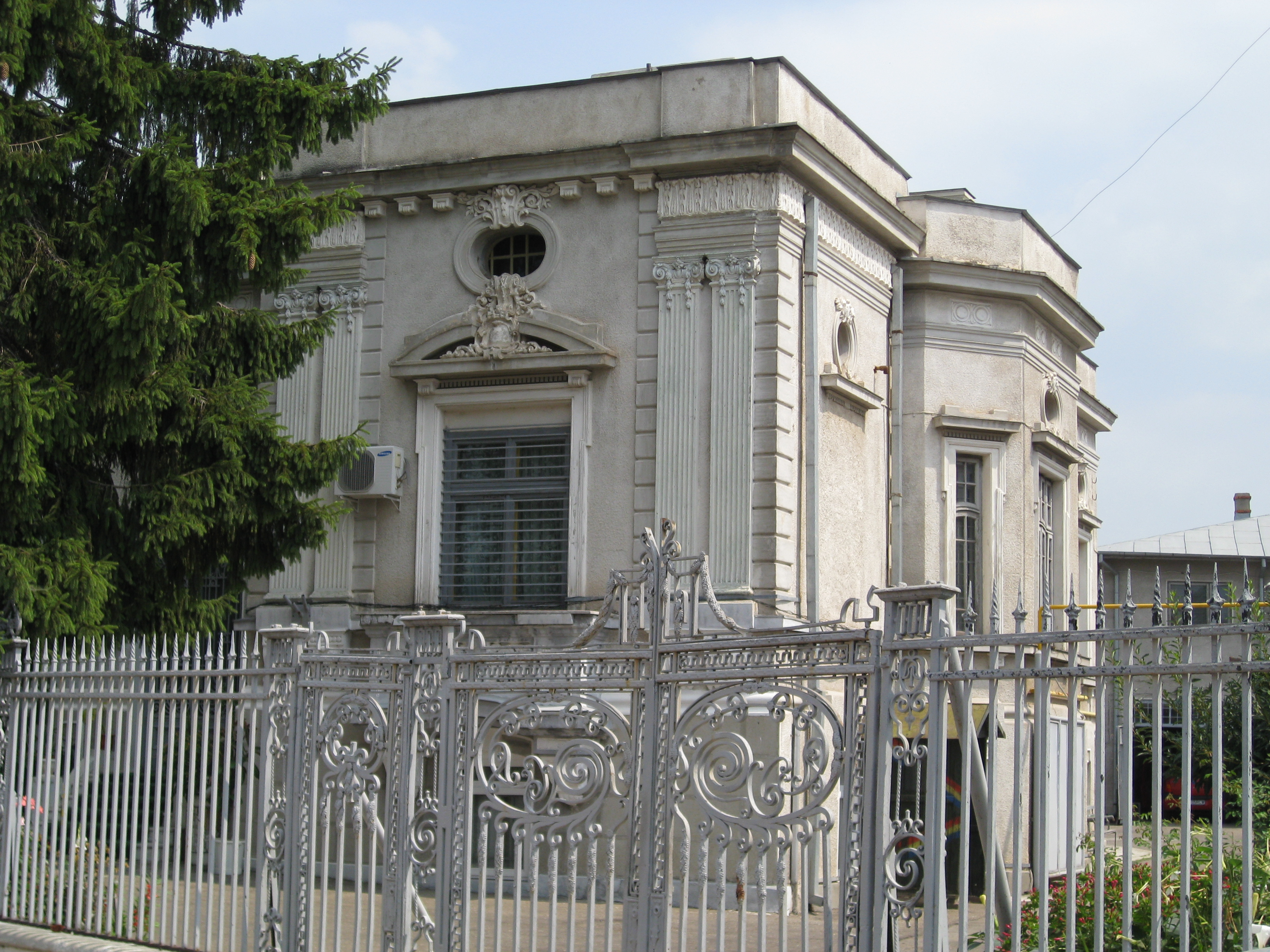 Birthplace of Ion Heliade Rădulescu, Târgovişte, Romania